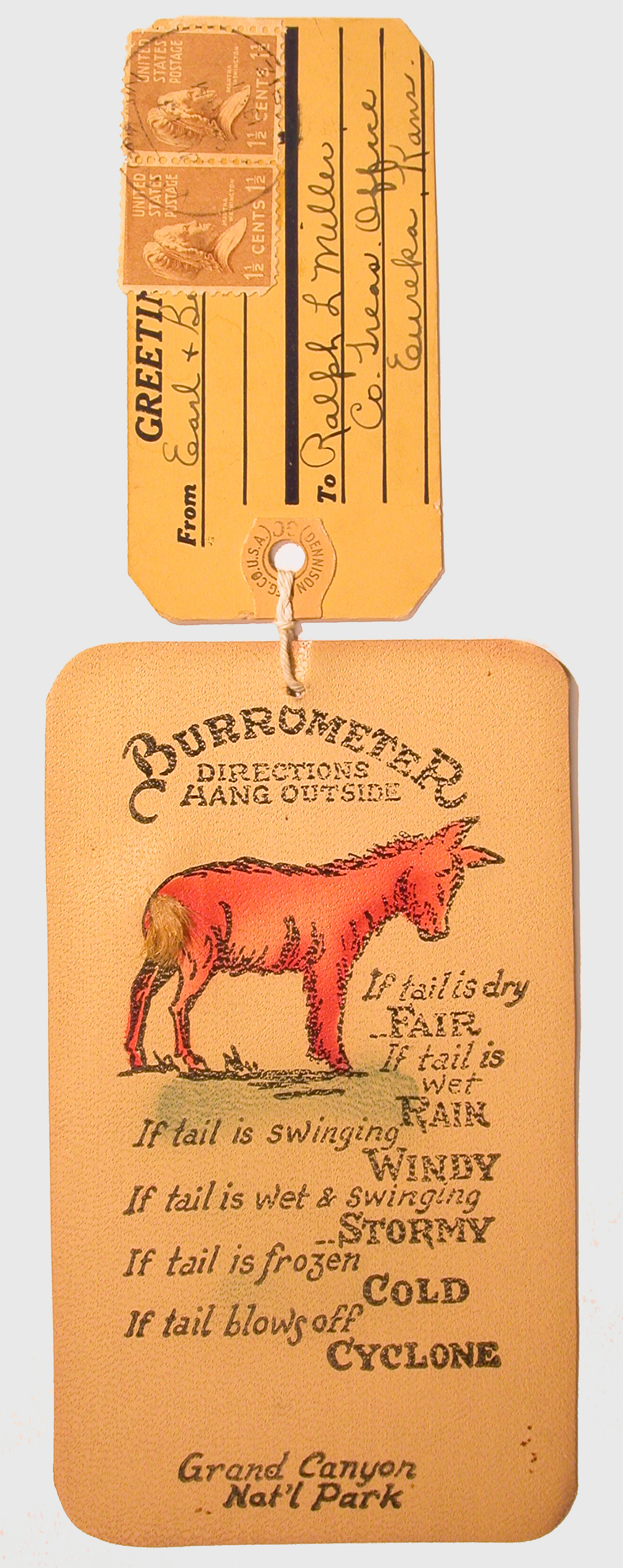 POSTCARD WITH A DRAWING OF A BURRO WITH A SMALL FEATHER AS HIS TAIL. READS "BURROMETER, DIRECTIONS: HANG OUTSIDE. IF TAIL IS DRY... FAIR. IF TAIL IS WET... RAIN. IF TAIL IS SWINGING... STORMY. IF TAIL IS FROZEN... COLD. IF TAIL BLOWS OFF... CYCLONE. GRAND CANYON NATIONAL PARK" BURRO IS RED, WITH A GREEN AREA BELOW HIM FOR GRASS. TIED TO THE TOP OF THE CARD WITH WHITE STRING IS A MAILING LABEL. FROM "BILL AND BE..." (STAMPS COVER REST OF NAME). SENT TO "RALPH L. MILLER, CO. TREAS. OFFICE, EUREKA, KANS." HAS TWO 1.5 CENT STAMPS. POSTMARKED 1951. Grand Canyon National Park Museum Collection, P.O. Box 129, Grand Canyon, AZ 86023